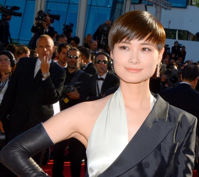 Li Yuchun at the Cannes film festival